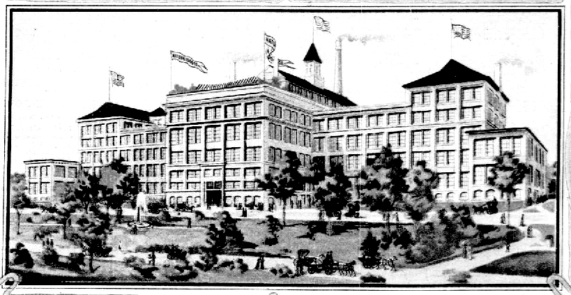 Niagara Falls NY Shredded Wheat factory, circa 1905. Cropped from a newspaper ad.